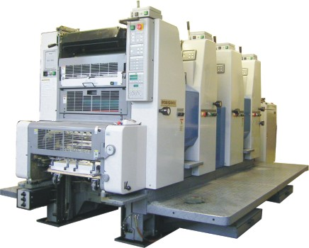 Ryobi offset press, four colours